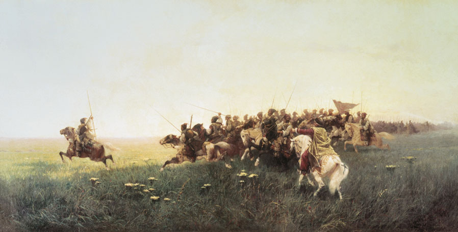 An attack of Zaporozhian Cossacks in the steppe